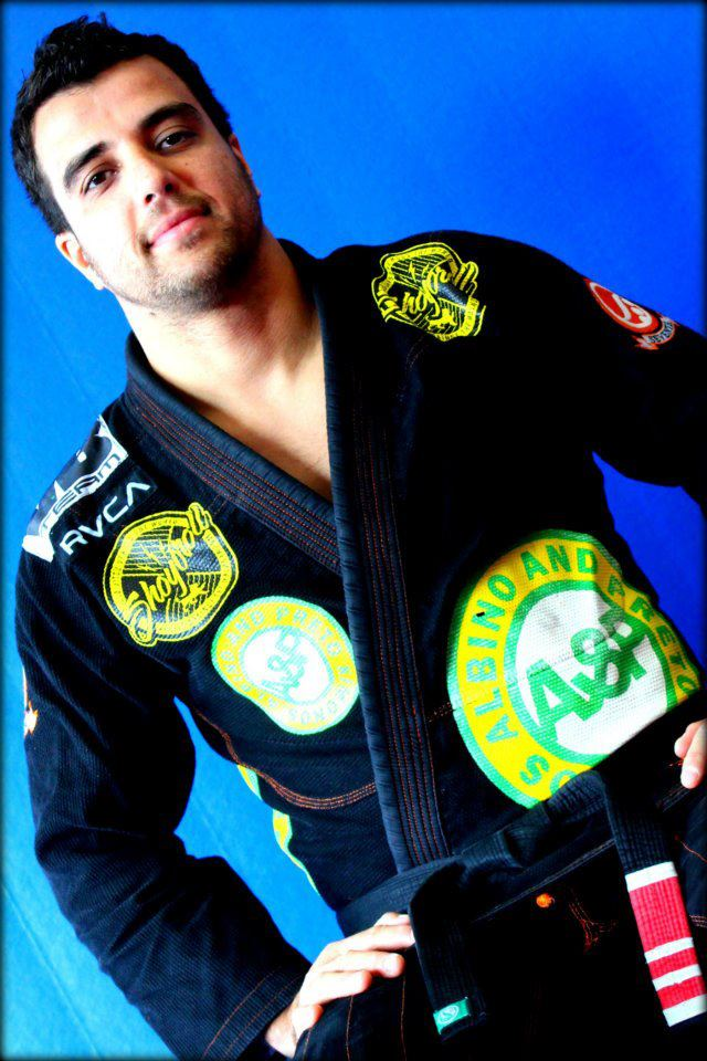 Leandro Vieira Brazilian Jiu-Jitsu fighter and coach